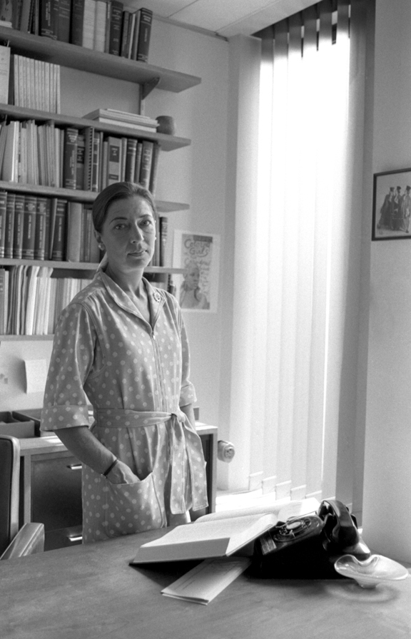 Ruth Bader Ginsburg, photographed in 1977 ©Lynn Gilbert